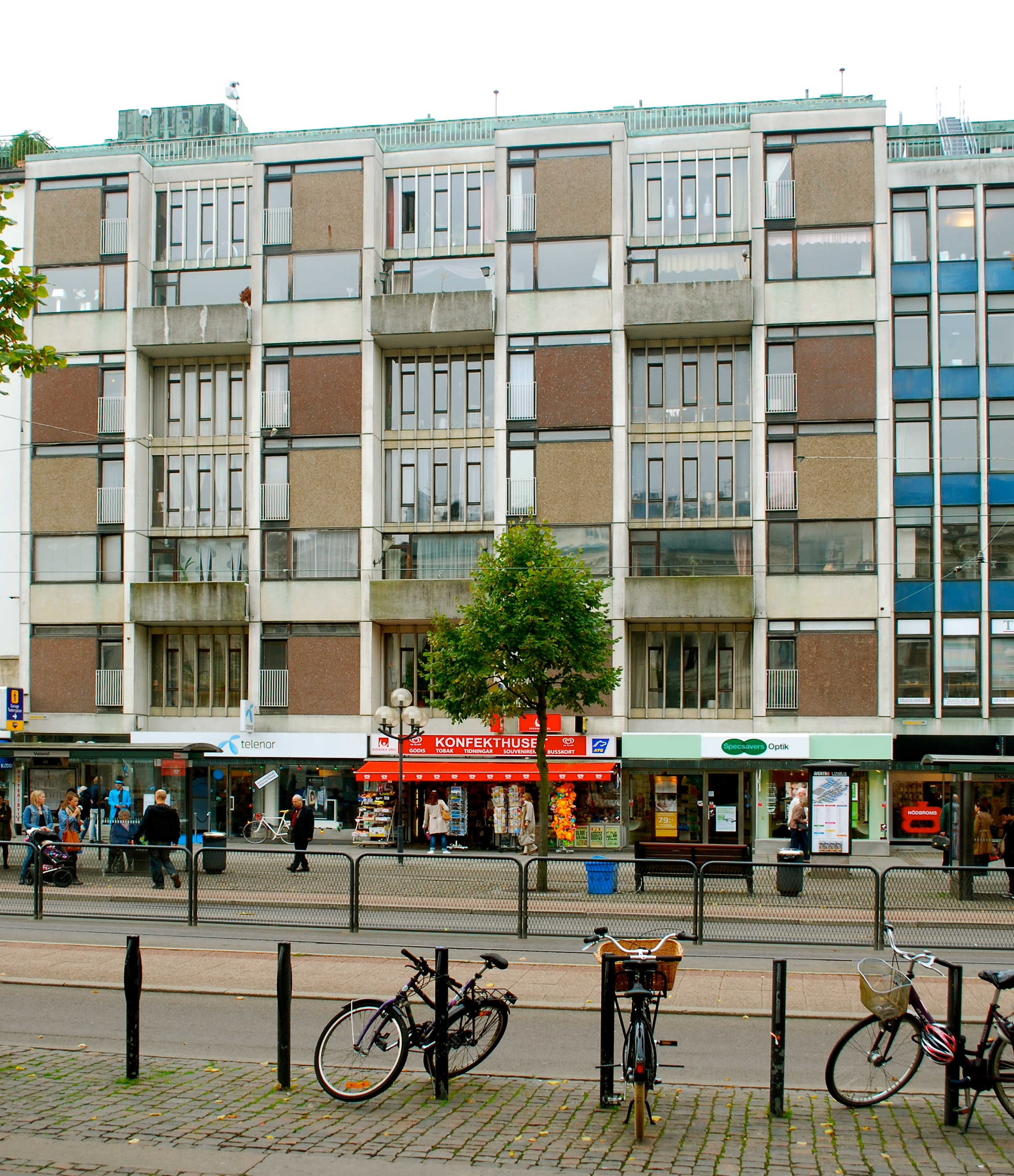 Kungsportsavenyen 23. Byggnadsår 1960. Arkitekt Helge Zimdal